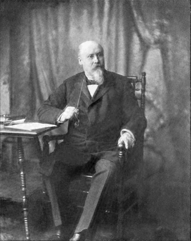 Michigan Governor Hazen S. Pingree